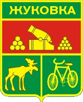 Coat of Arms of Zhukovka, Bryansk oblast